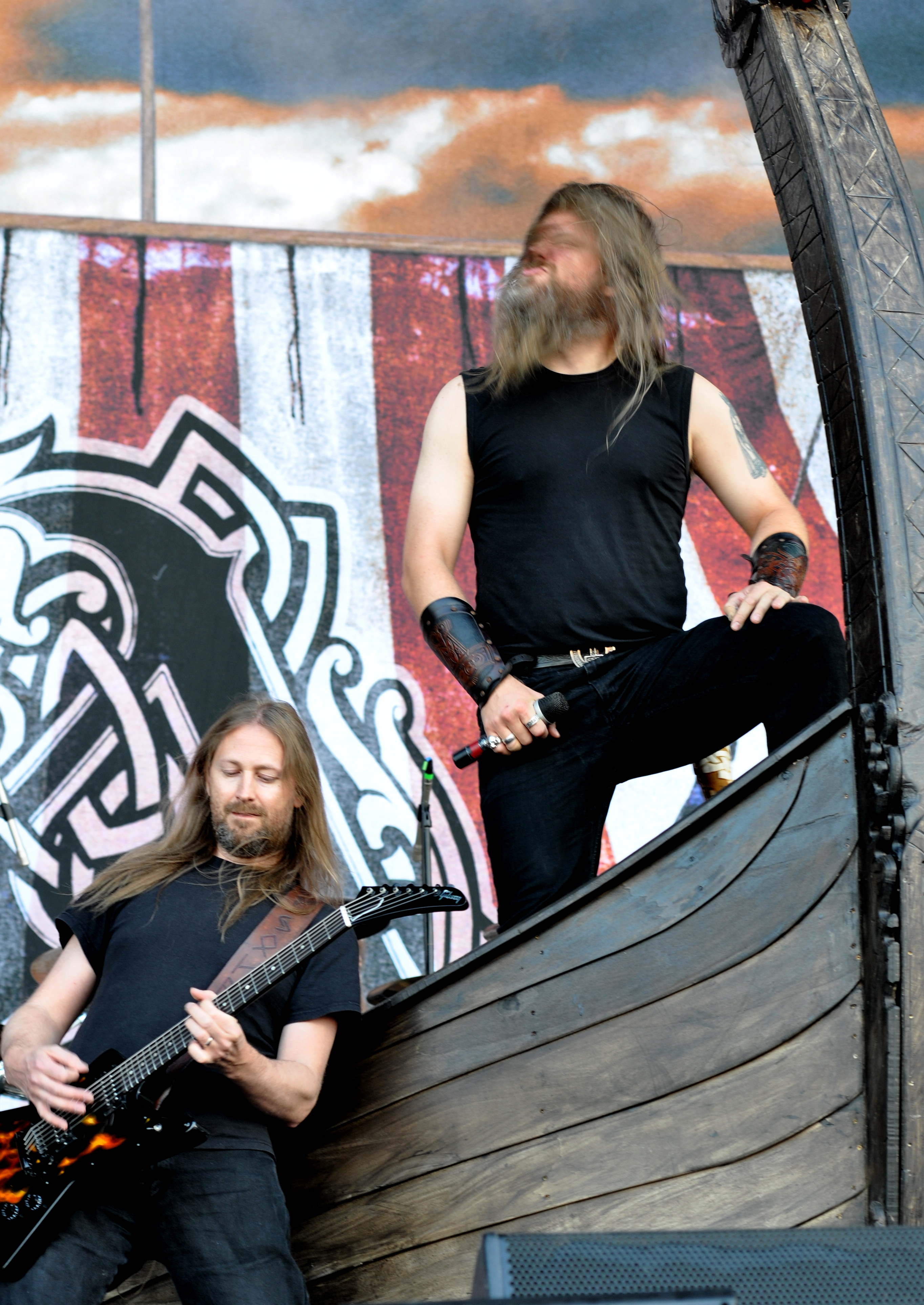 Amon Amarth at Rock am Ring 2013